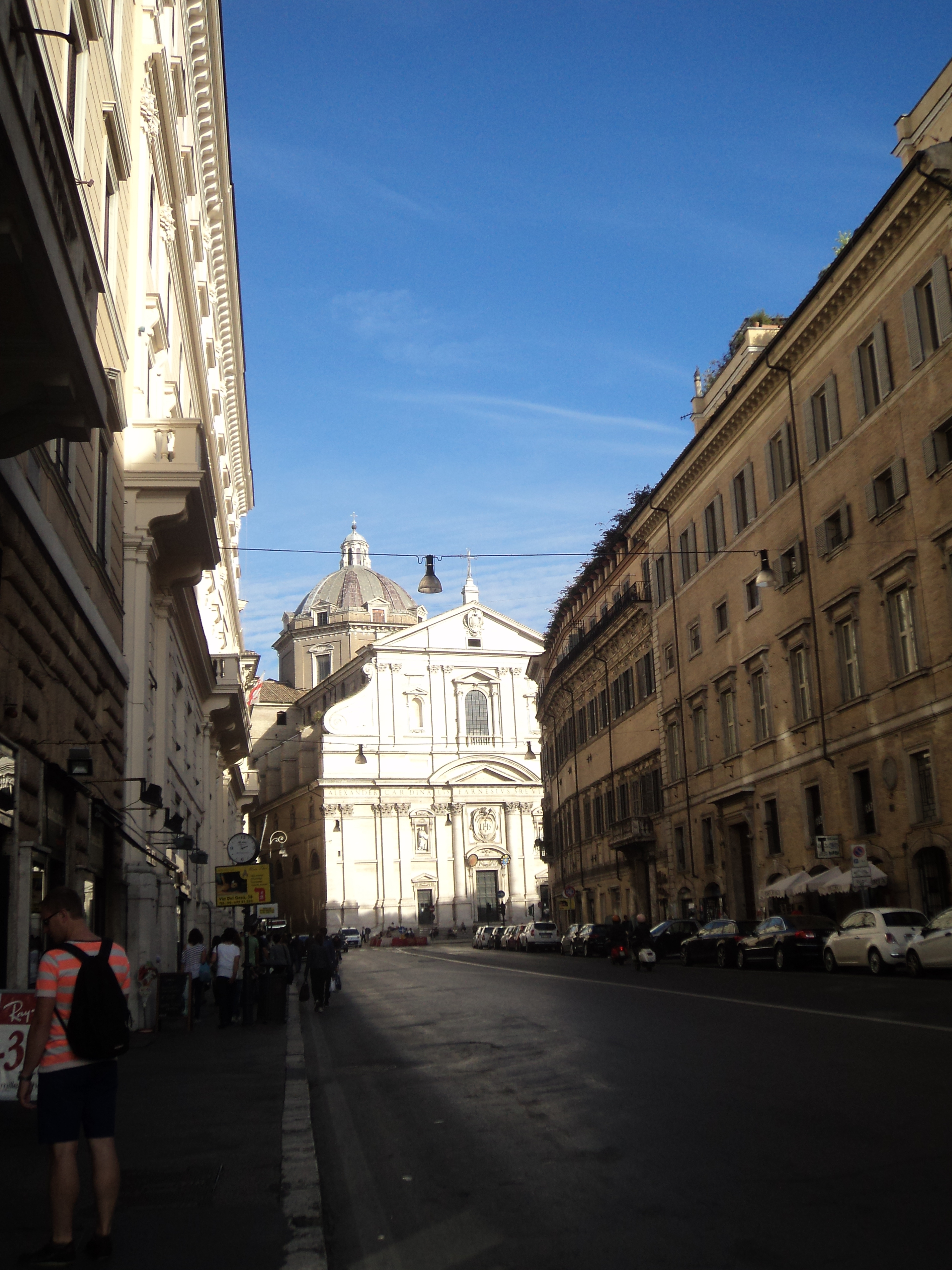 Facade of Il Gesù